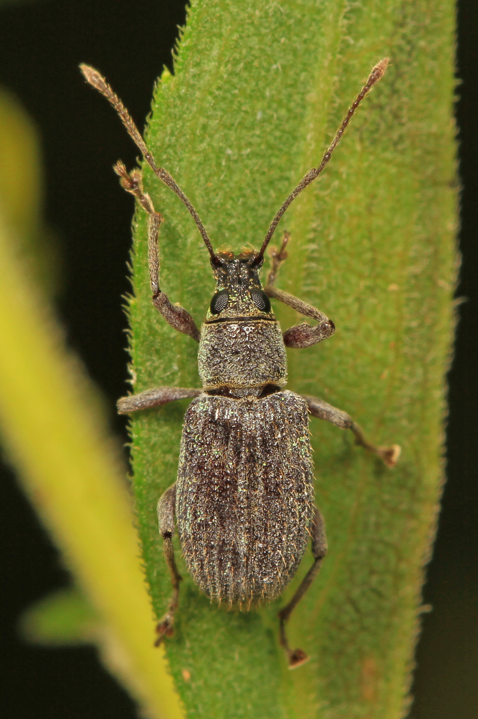 Asiatic Oak Weevil, Meadowood Farm SRMA, Mason Neck, Virginia.